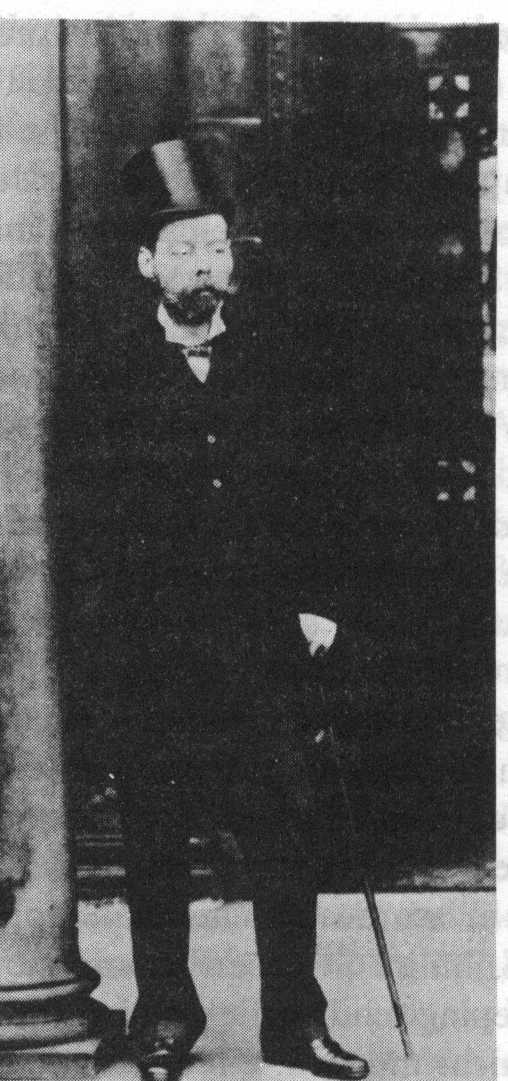 Lord Randolph Churchill in 1894.